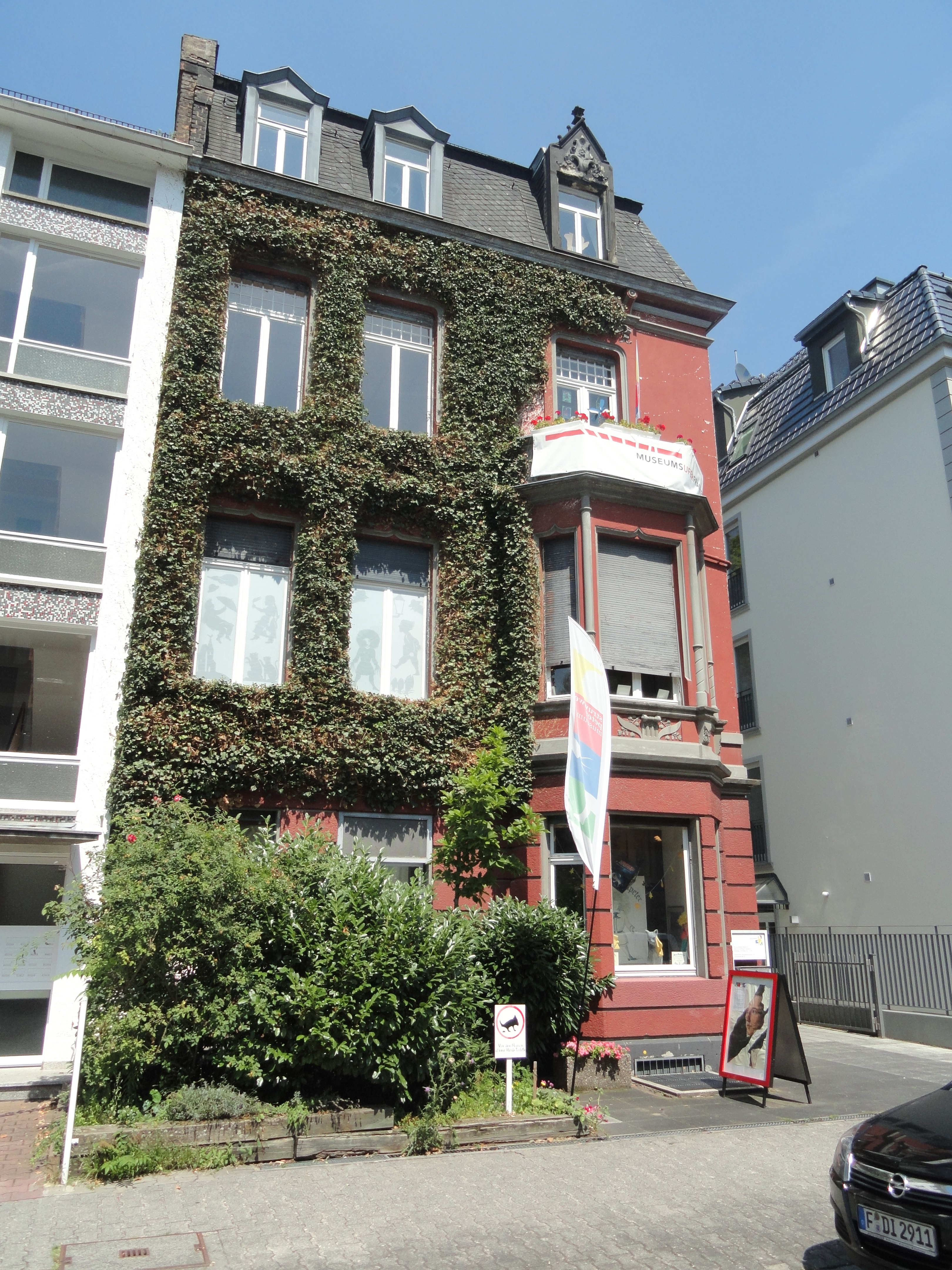 Struwwelpeter Museum, Schubertstr. 20 60325 Frankfurt am Main, Germany. (I asked). Artwork is old enough so that it is in the public domain. I took this photograph and release it into the public domain.